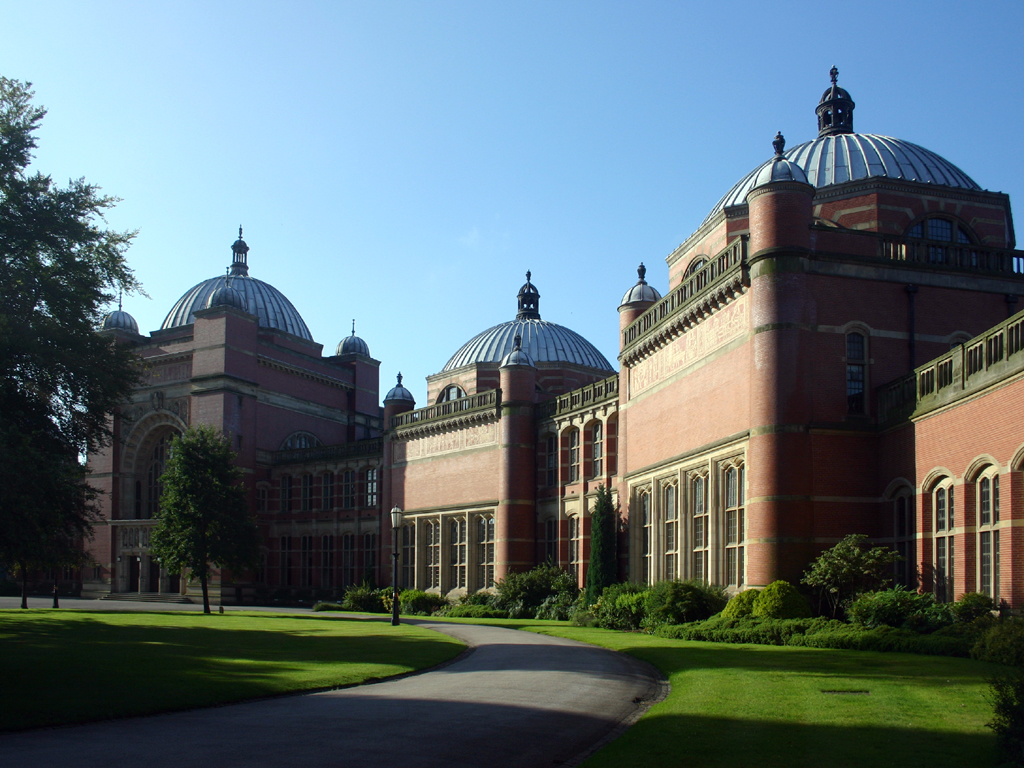 The Aston Webb Building in Chancellor's Court, University of Birmingham in Birmingham, United Kingdom